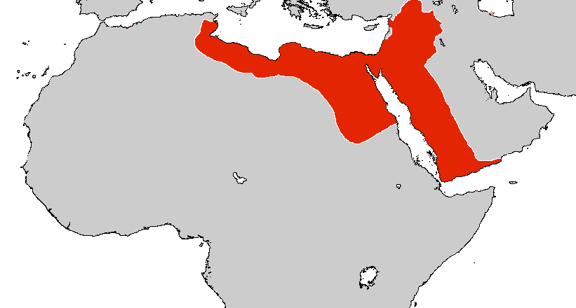 Map of the Ayyubid dynasty at its greatest extent in 1188 under Saladin